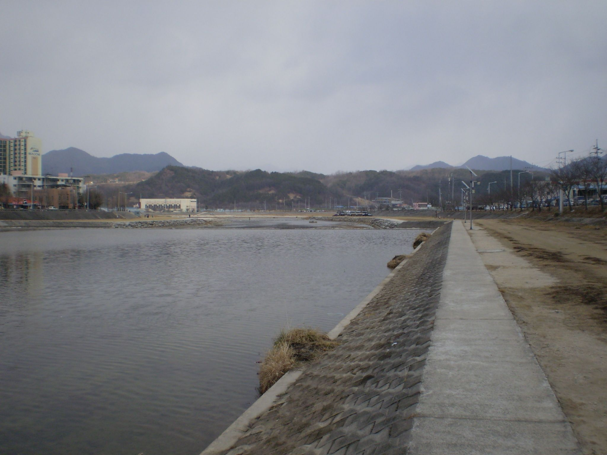 View downstream along the Hwang River in Geochang, Gyeongsangnam-do, South Korea.